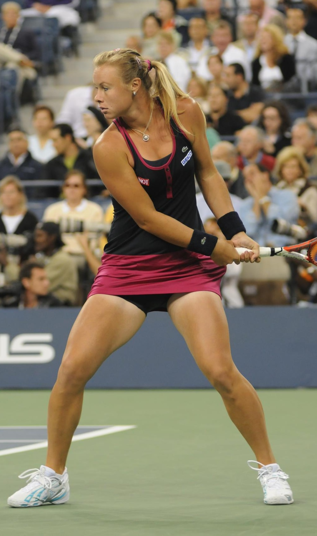 Vera Dushevina returns against Venus Williams on the opening day of the 2009 U.S. Open (cropped)